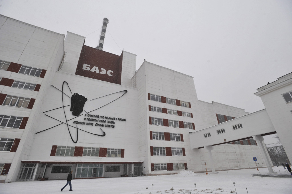 “Beloyarsk Nuclear Power Plant operation”. The front of the BN 600 generating unit control building at the Beloyarsk I.V.Kurchatov Nuclear Power Plant.